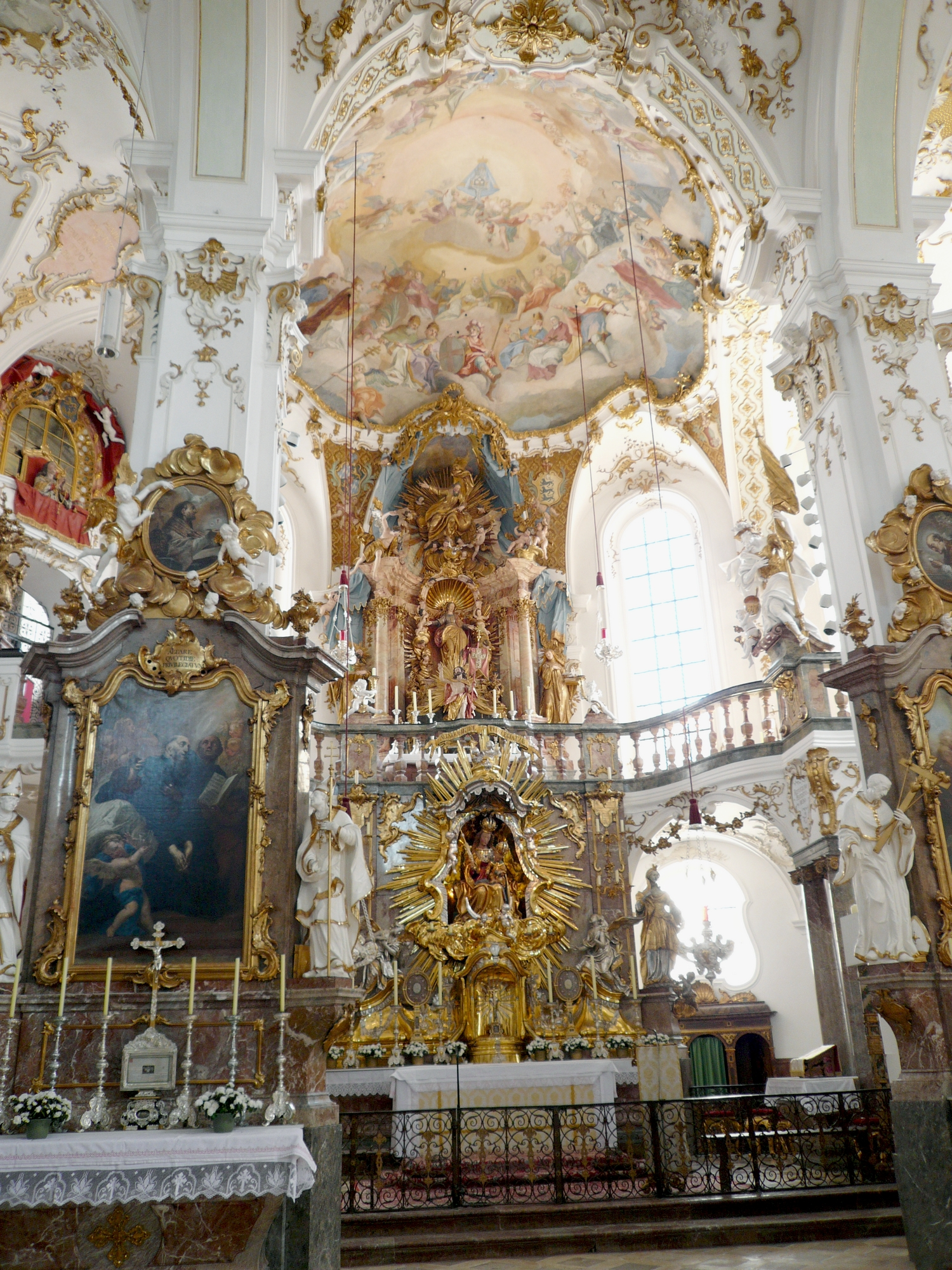 Church of Andechs monastery, interior